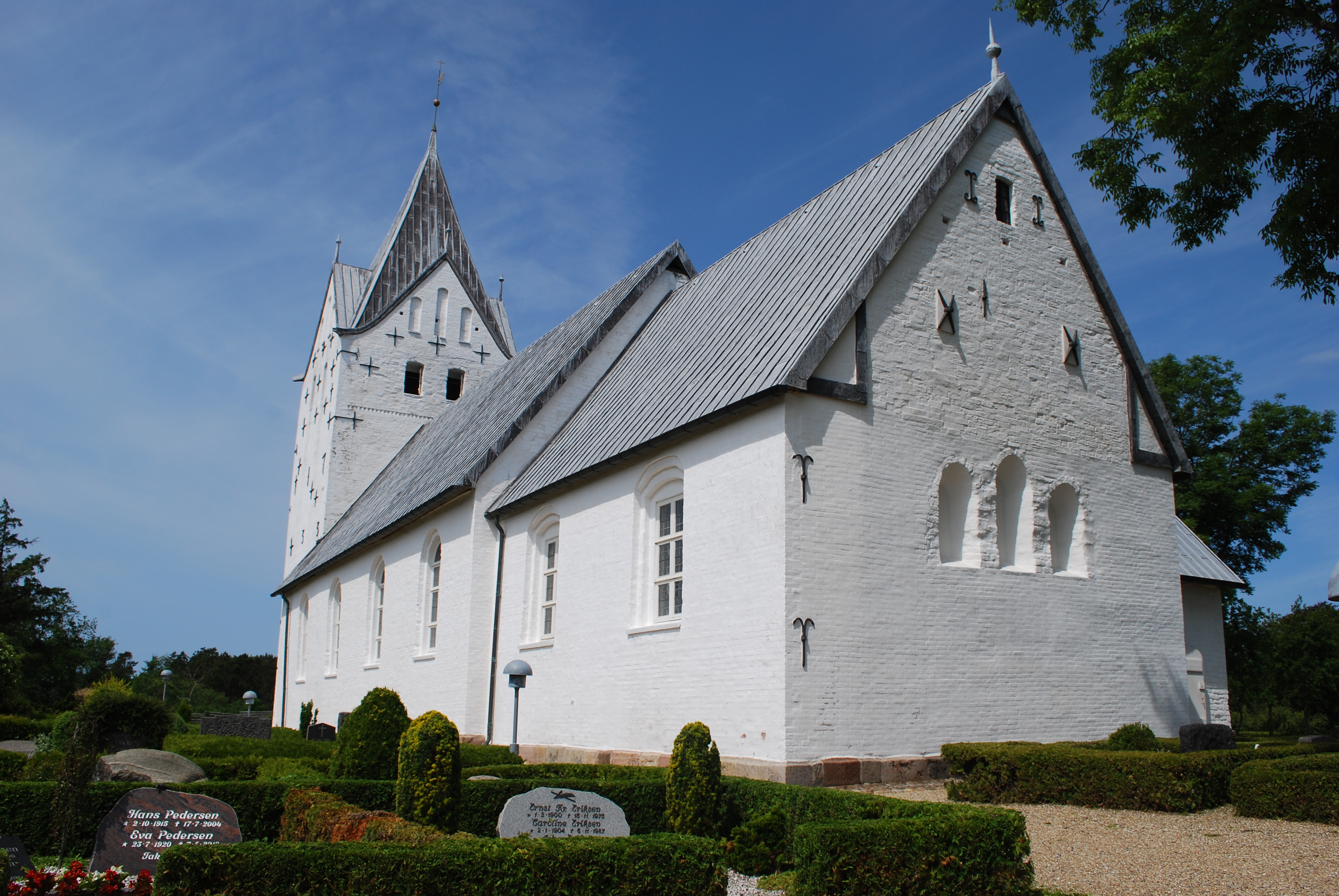 Church of Vester Vedsted